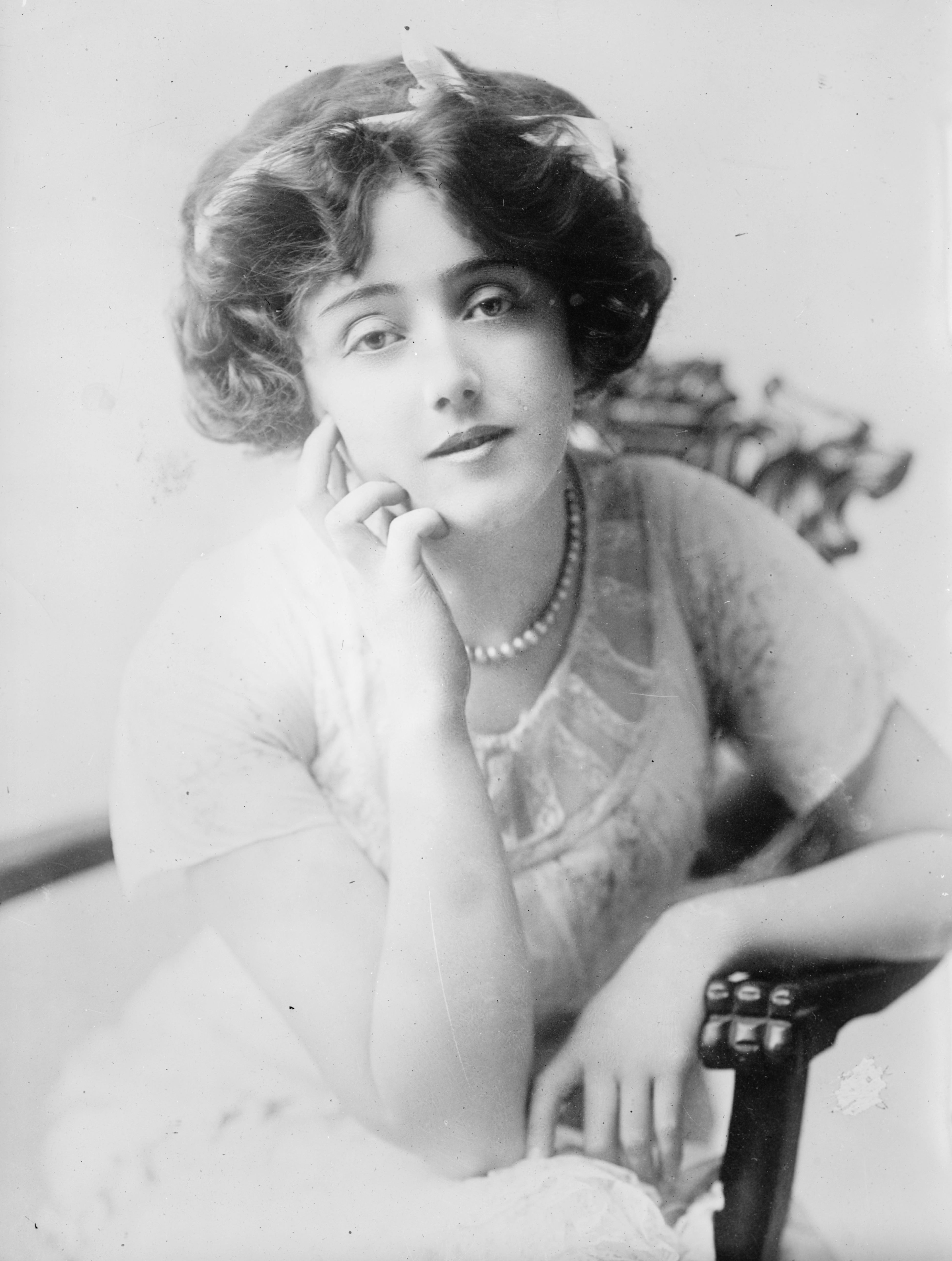 Title: May de Sousa Abstract/medium: 1 negative : glass ; 5 x 7 in. or smaller.